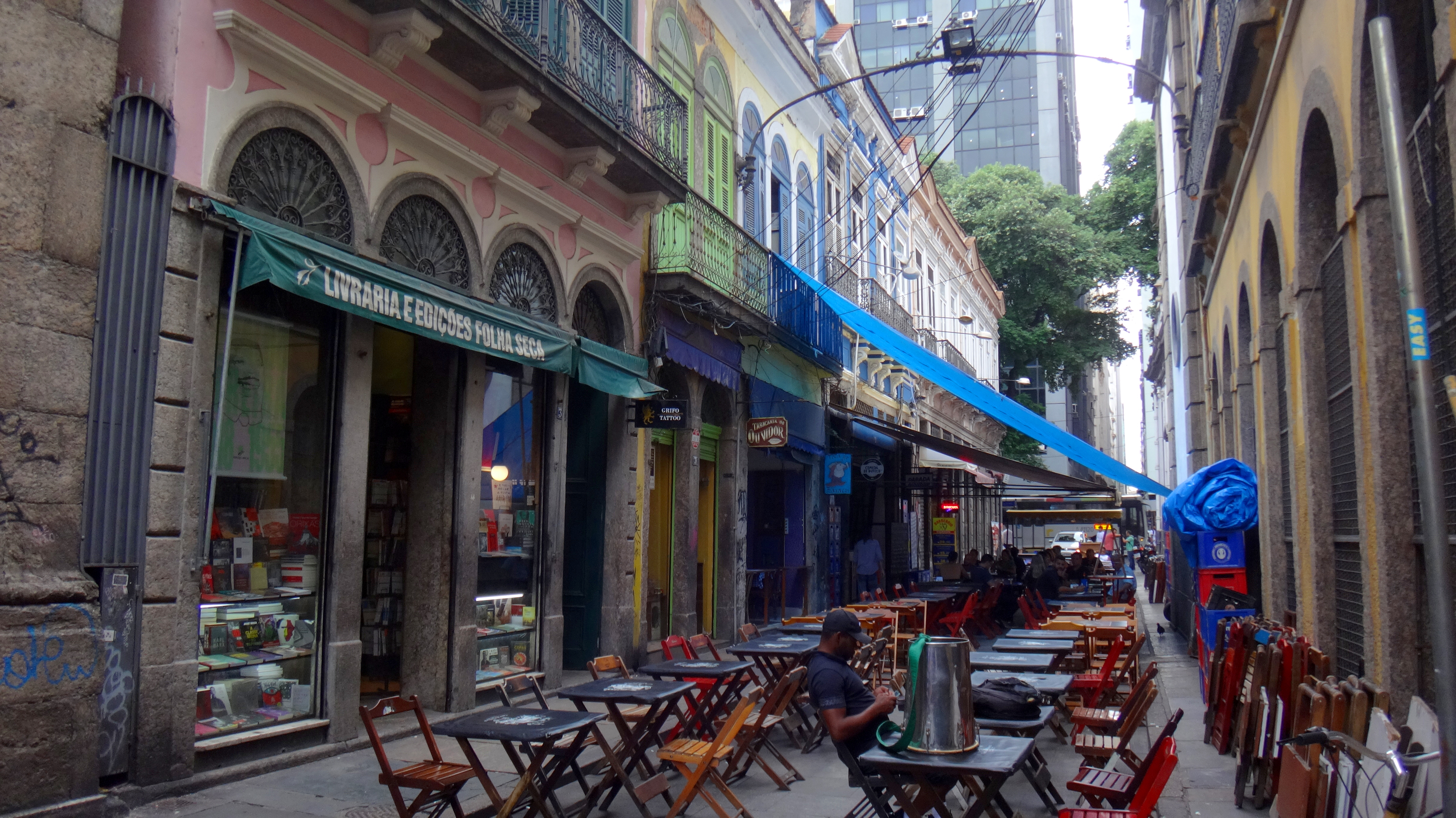 Ouvidor Street in the centre of Rio de Janeiro, Brazil.